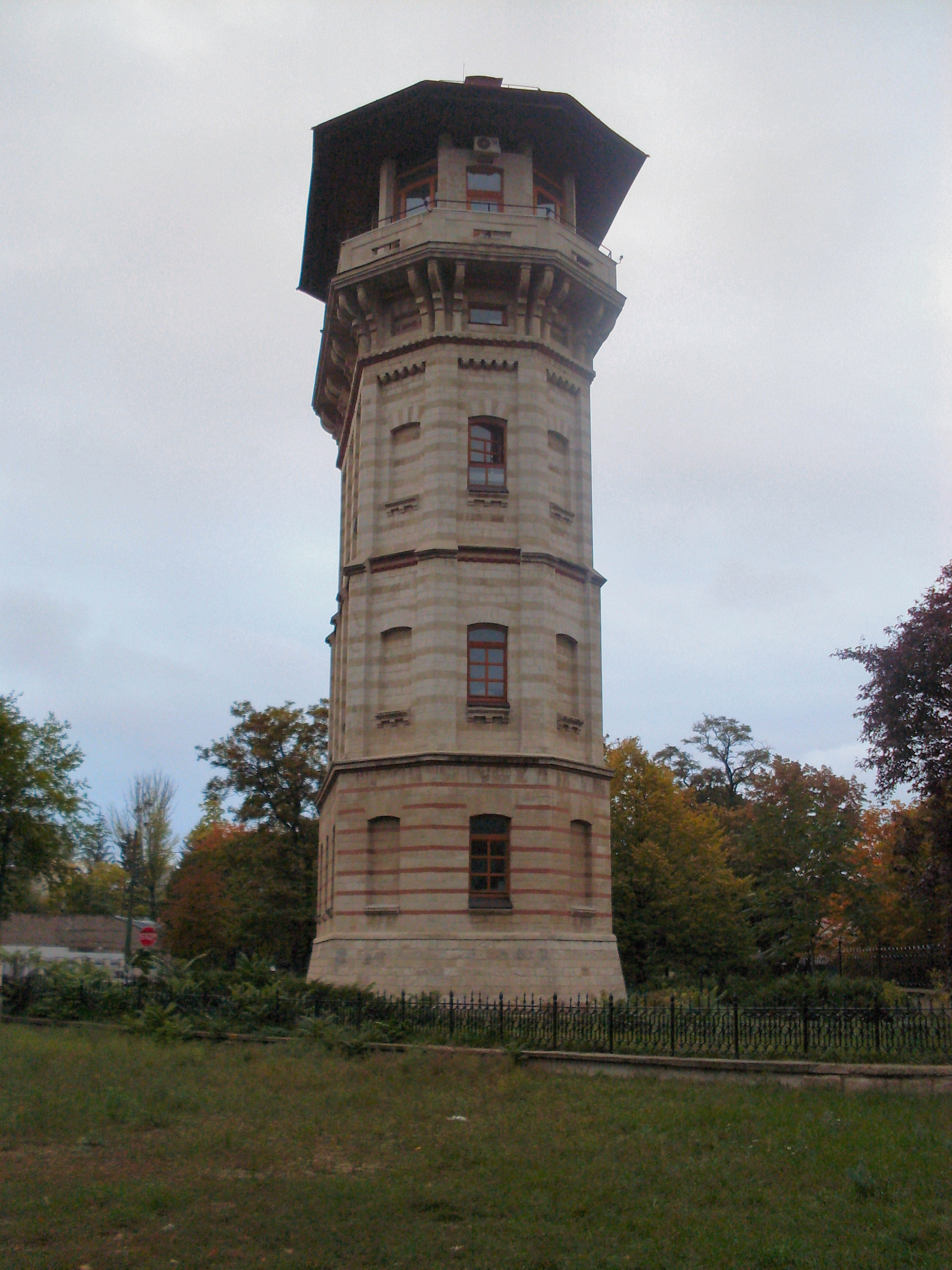 The water tower in Chisinau, Republic of Moldova.